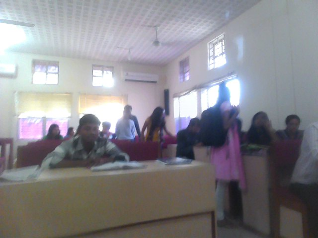 IIMC Dhenkanal Class room no 1